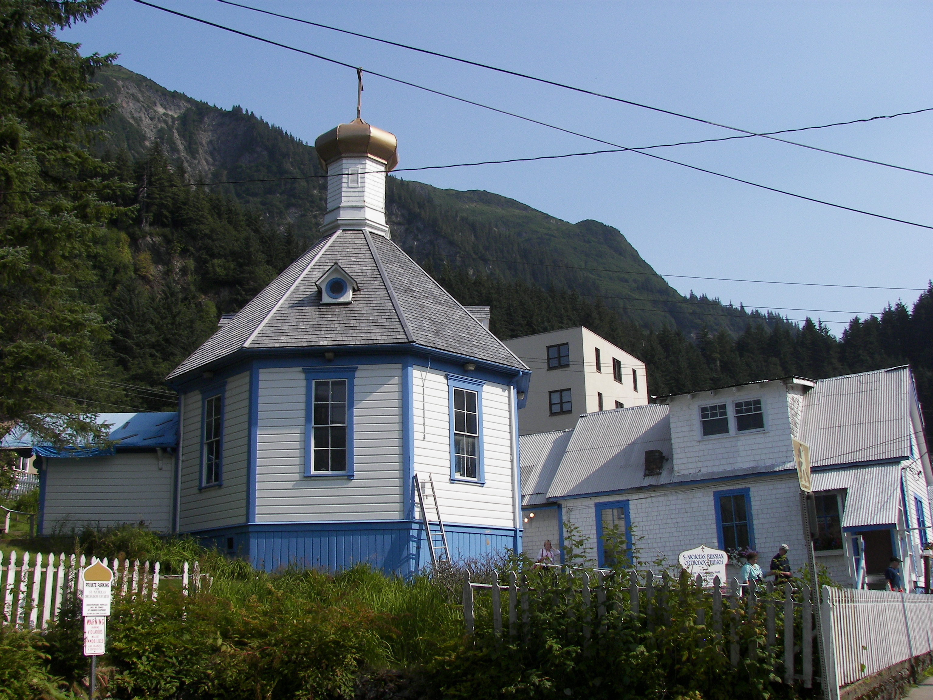 Saint Nicholas Russian Orthodox Church on Fifth Street in downtown Juneau, Alaska. The church is on the National Register of Historic Places in Alaska.